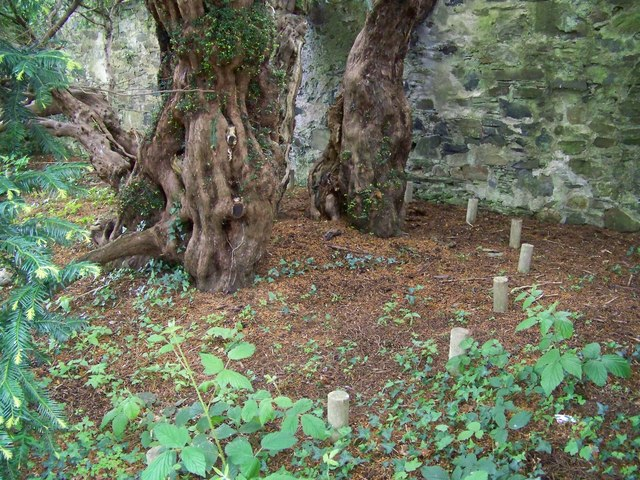 The Fortingall Yew The marker posts shows the size of the tree when it was at its largest.